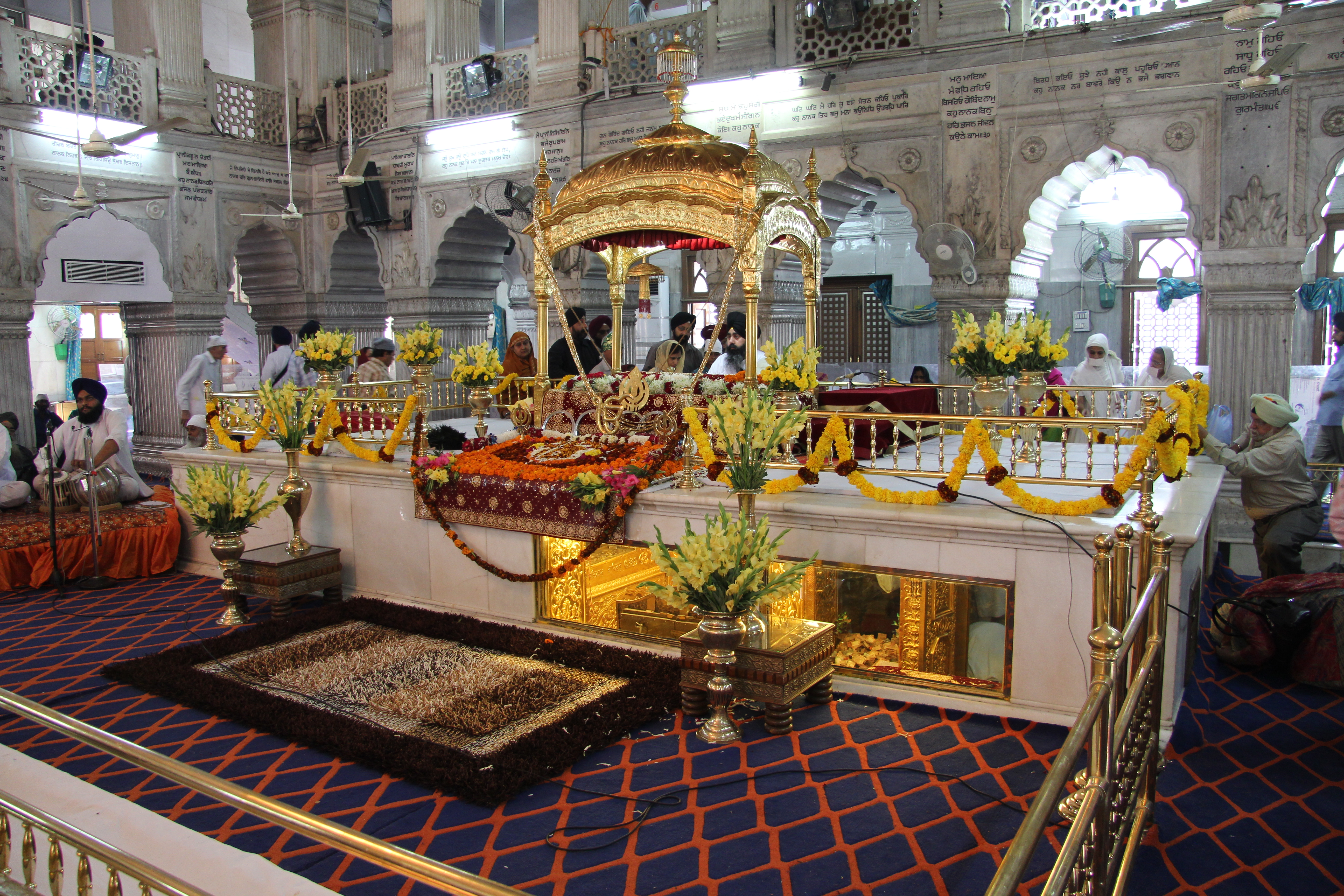 Gurdwara Sis Ganj, Old Delhi, India: This is the view of the front of the Darbar Sahib or Prayer Hall showing the Palki housing the Guru Granth Sahib. The area around the palki and the main platform is decorated with fresh flowers. The long window in the platform shows the exact location of the martyrdom of the ninth Sikh Guru. On the right of the photo can be seen 2 devotees paying their respects to the Guru; his noble and unique deed is remembered with reverence by all Sikhs and many others who recognise the higher level of human behaviour. This shrine is built at the exact location where Guru Tegh Bahadur, the ninth Sikh Guru was martyred on the orders of the Mughal emperor Aurangzeb on Wednesday, November 24, 1675 for refusing to convert to Islam. Read more at